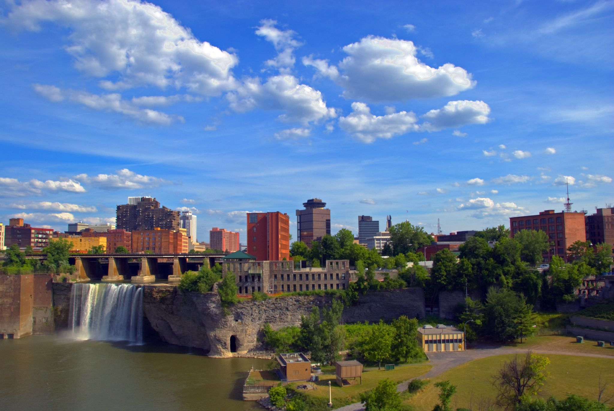 High Falls Park at Rochester, New York, USA.